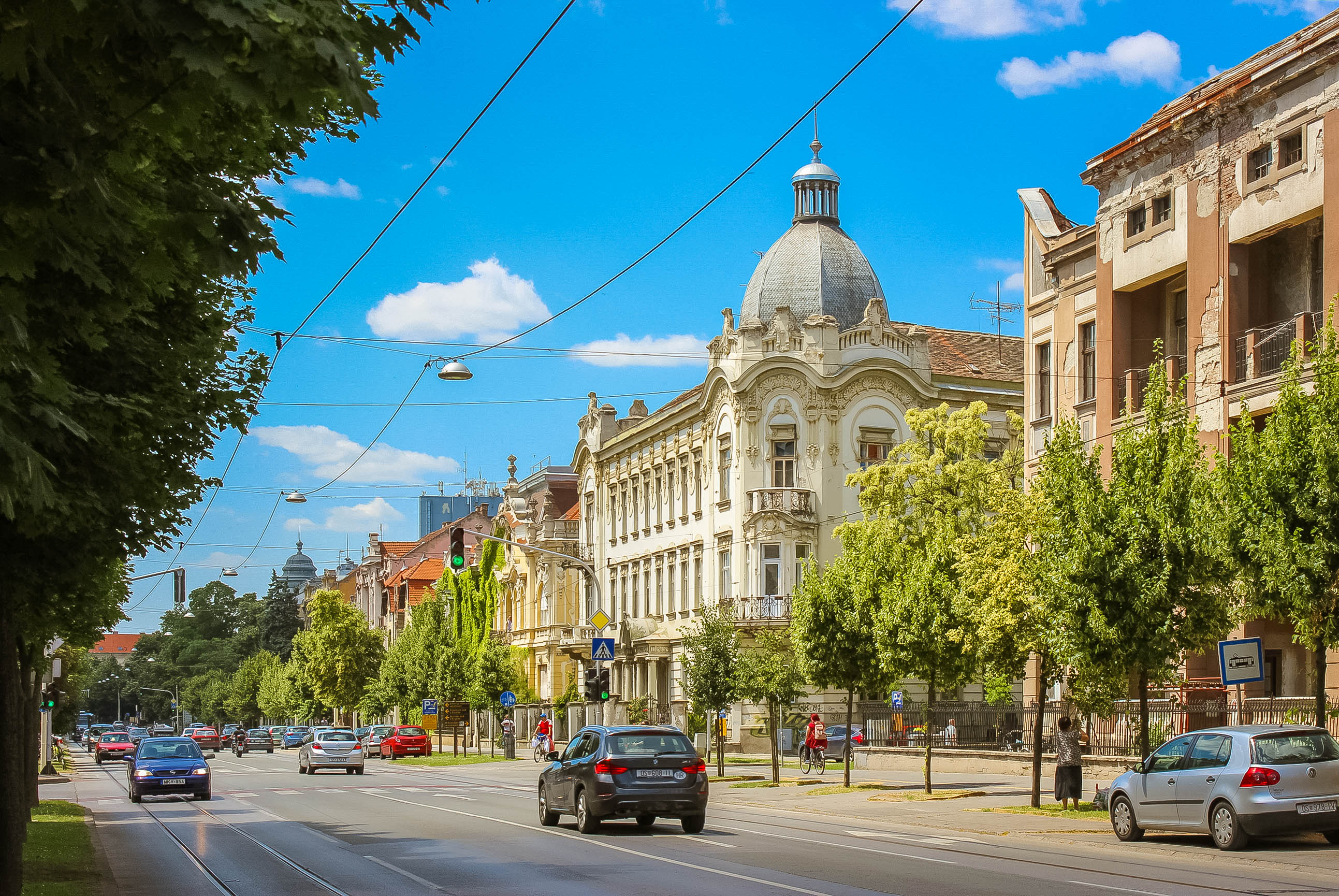 Street